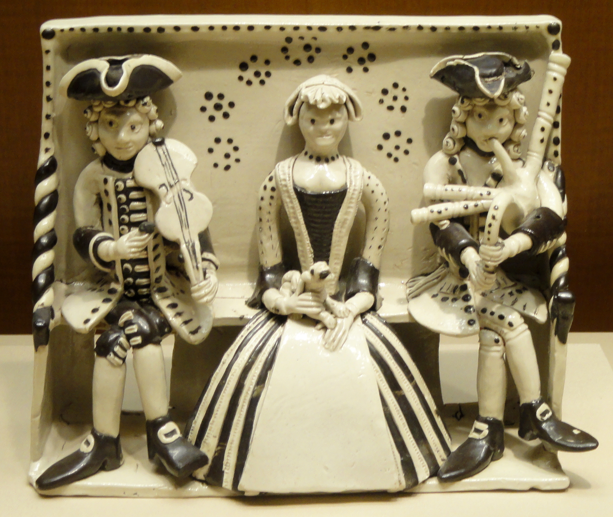 Exhibit in the Nelson-Atkins Museum of Art, Kansas City, Missouri, USA. ; I took this photograph and release it into the public domain.